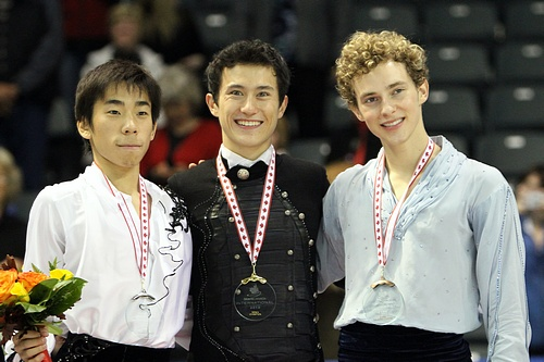 Nobunari Oda (2), Patrick Chan (1), Adam Rippon (3) at the 2010 Skate Canada International